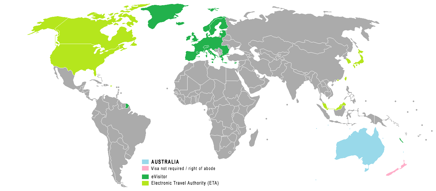 Map of Visa policy of Australia Australia Special Category Visa eVisitor Electronic Travel Authority Visa required